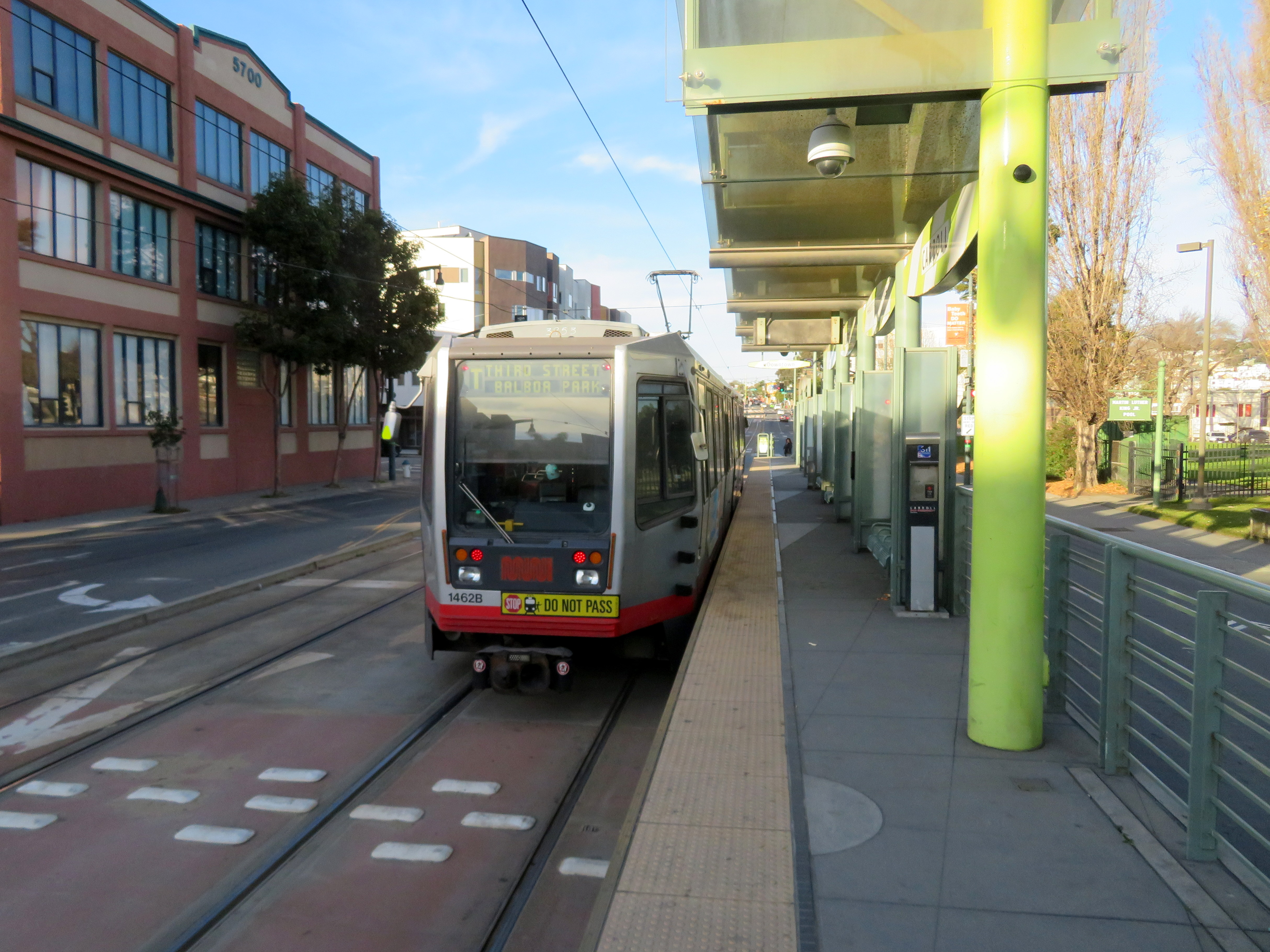 A northbound train leaving Carroll station in February 2020